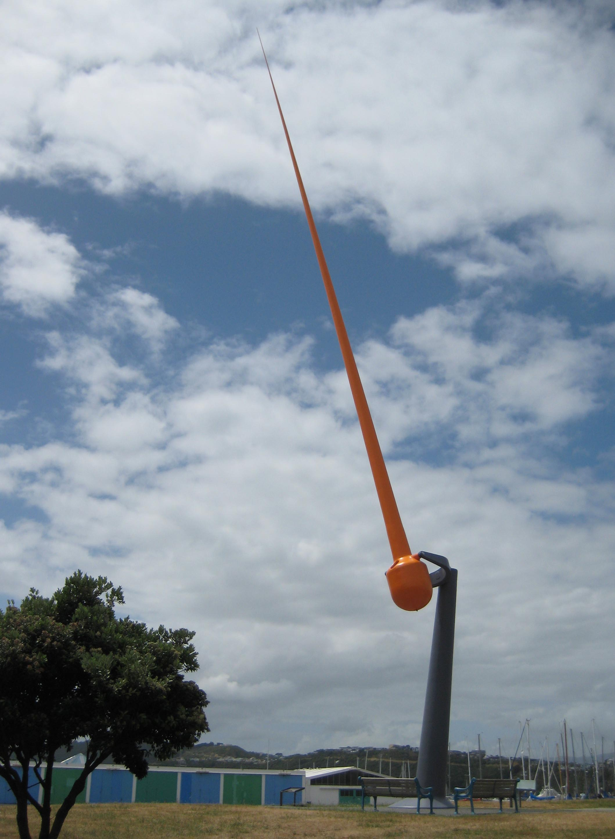 Zephyrometer